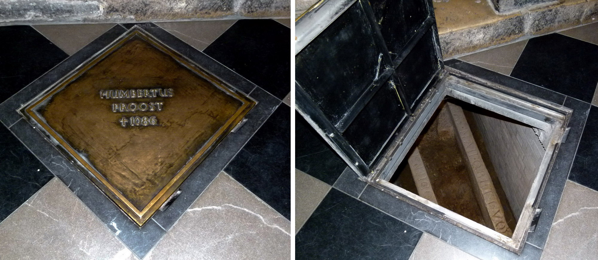 Sarcophagus of provost Humbertus (died 1086) below a bronze tile in the Basilica of Saint Servatius, Maastricht, the Netherlands.